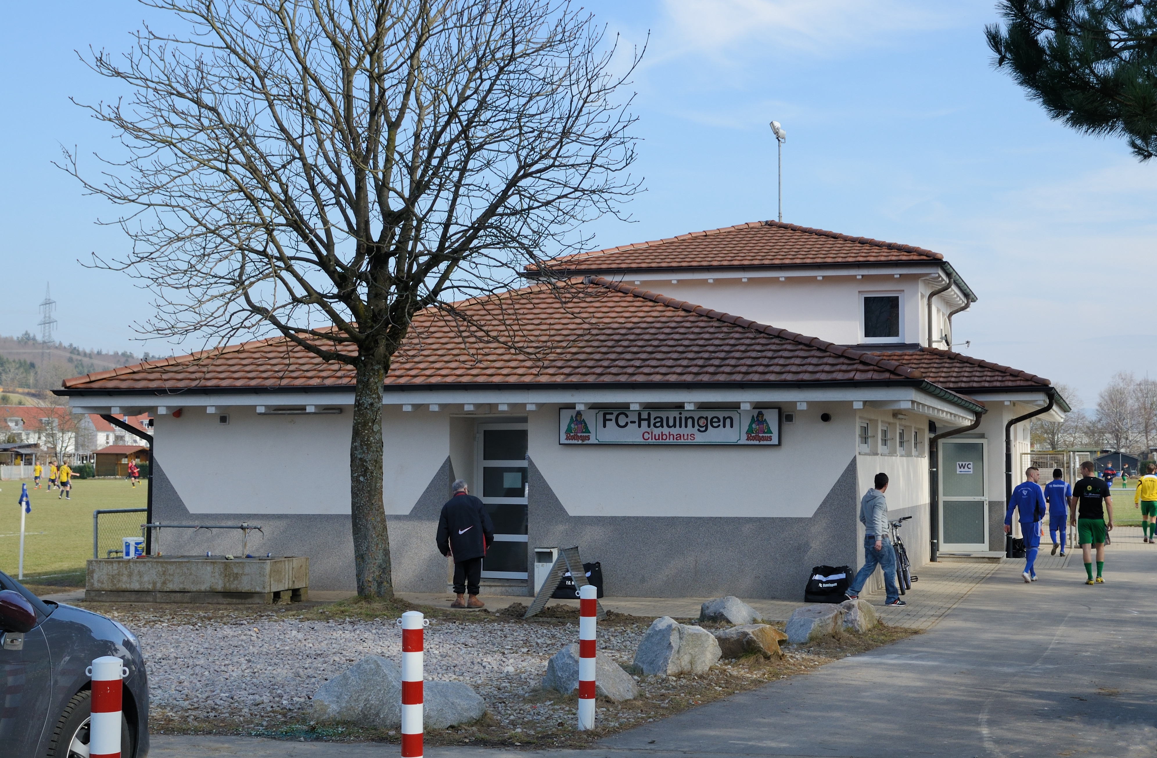 Lörrach-Hauingen: pavilion of FC Hauingen